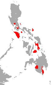 Large Rufous Horseshoe Bat (Rhinolophus rufus) range